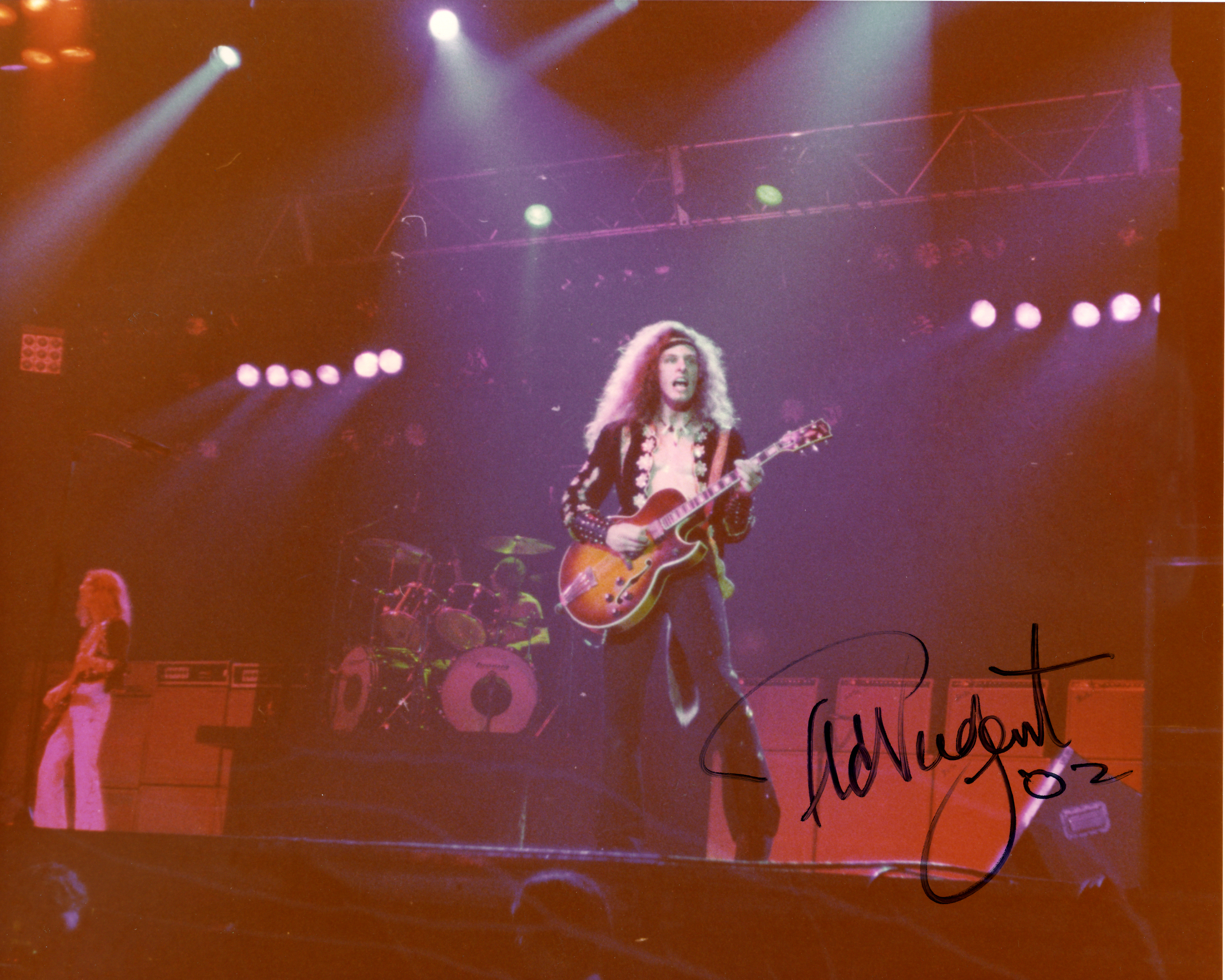 Ted Nugent on stage in San Antonio, Texas. Description=I shot this from my front row seat on January 12th, 1979. The super cool thing about this show was that parts of it were used on the awesome Double Live Gonzo Album. Seriously, my ears are still ringing... I got to finally meet The Nuge one afternoon during his 2002 Kill It & Grill It book signing tour. Viva Joe Anthony & Lou Roney!